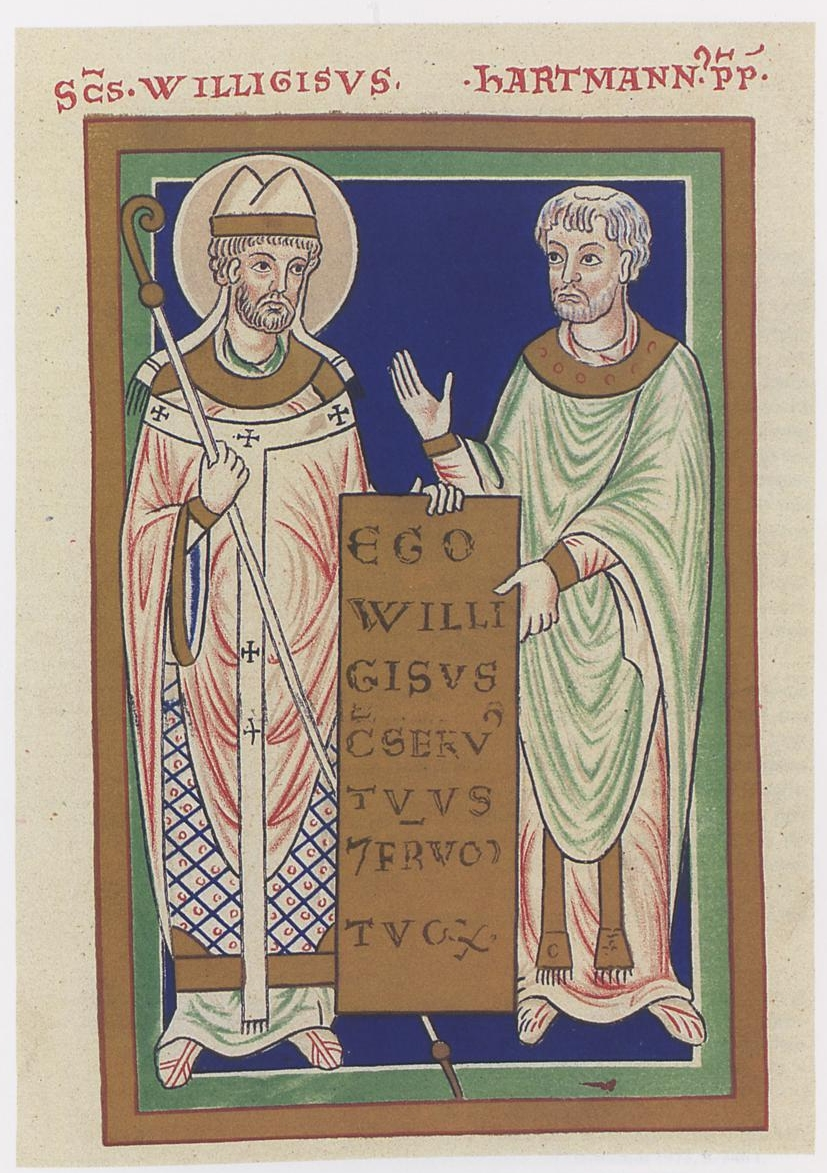 Sc̄s. Willigisus Hartmann p̄p̄ / Ego Willigisus c̄servꝰ tuus ⁊ fr̄um tuoꝝ = Sanctus Willigisus Hartmann praepositus / Ego Willigisus conservus tuus et fratrum tuorum]